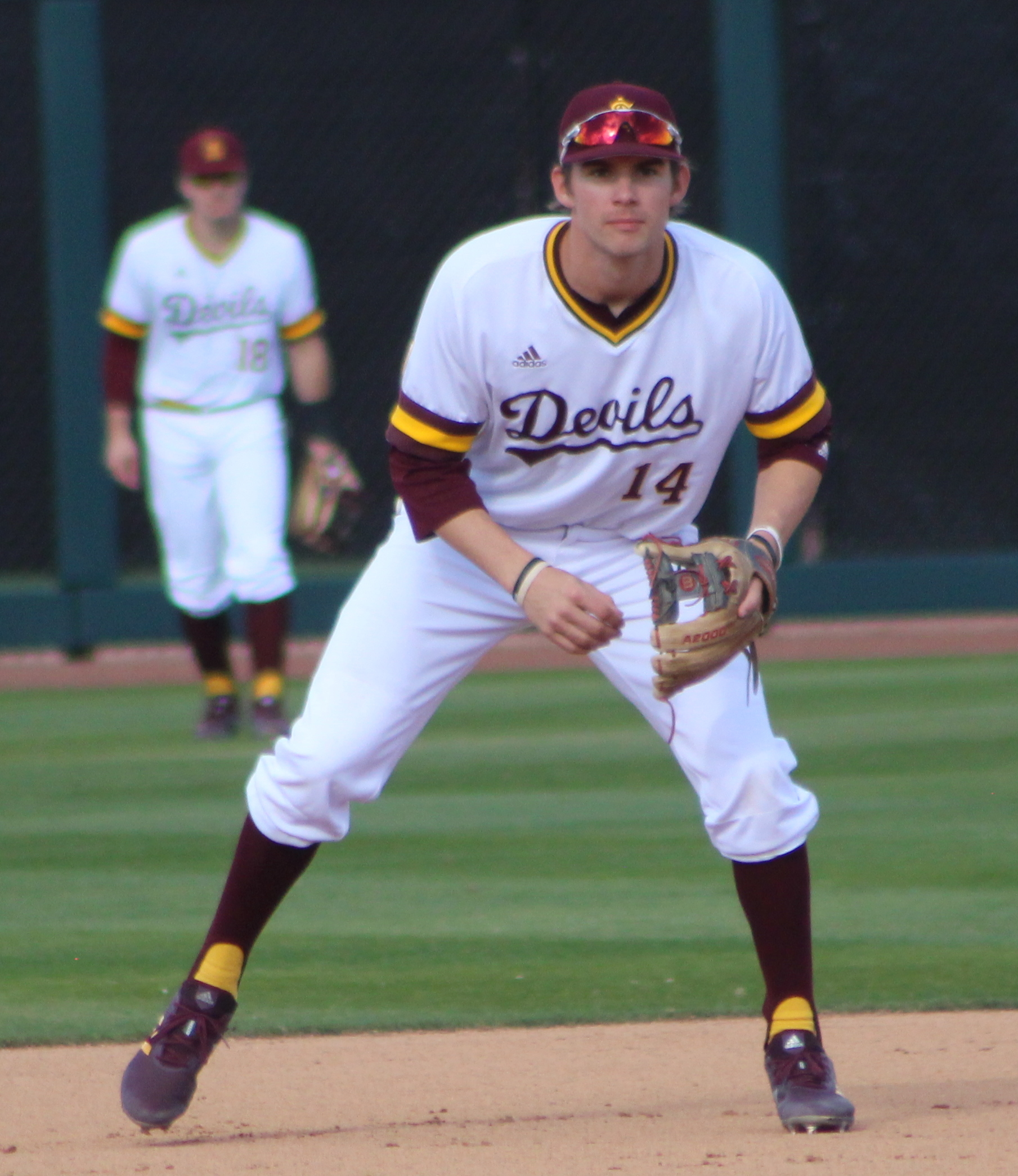 Sophomore Gage Workman at 3B for the Sun Devils against the Fighting Irish, opening weekend of the 2019 season while Trevor Hauver looks in from left field in the background. The Sun Devils swept the 3-games against Notre Dame.